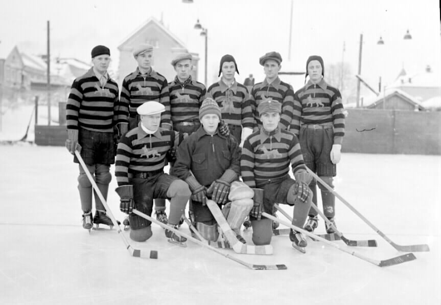 Team Ilves Tampere 1938